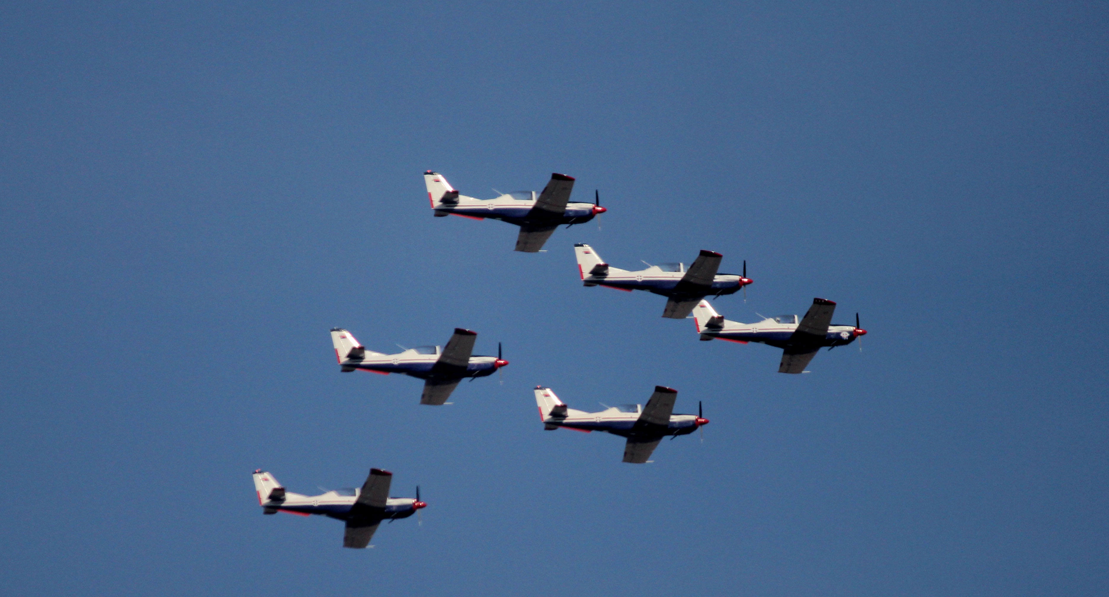 Formation of six Serbian Air Force Lasta trainer aircraft flying over Batajnica Air Base during the Belgrade liberation day celebration and "Sloboda 2017" military exercise. Српски (ћирилица): Формација од шест школских авиона Ласта Ратног ваздухопловства Војске Србије у лету изнад војног аеродрома Батајница током војне вежбе Слобода 2017 у оквиру обележавања годишњице ослобођења Бегограда у 2. светском рату.